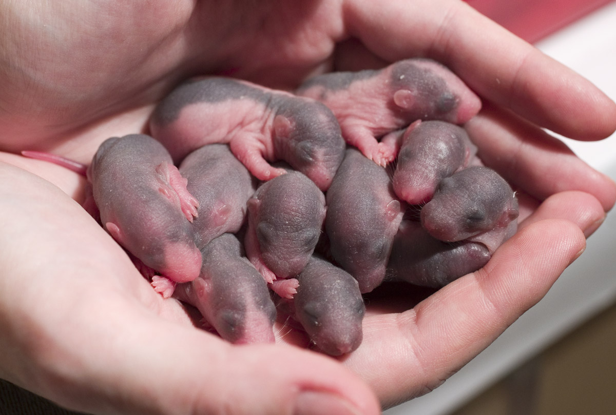 Petit rats. 4 days old.